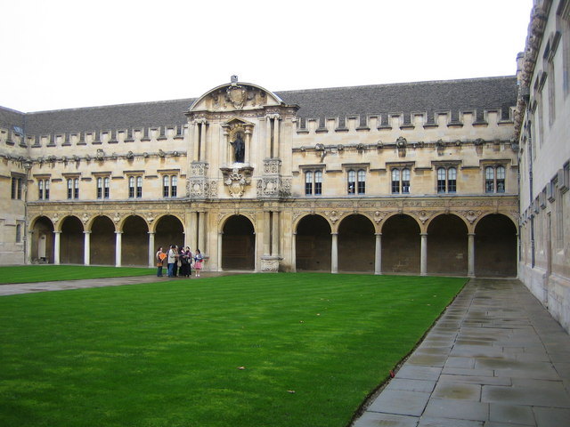 This is the east side of Canterbury Quad, which was designed by Archbishop Laud and built between 1631 and 1636. The Tuscan arcades have bronze statues of King Charles I (in this facade) and Henrietta Maria in the other. The College website is here